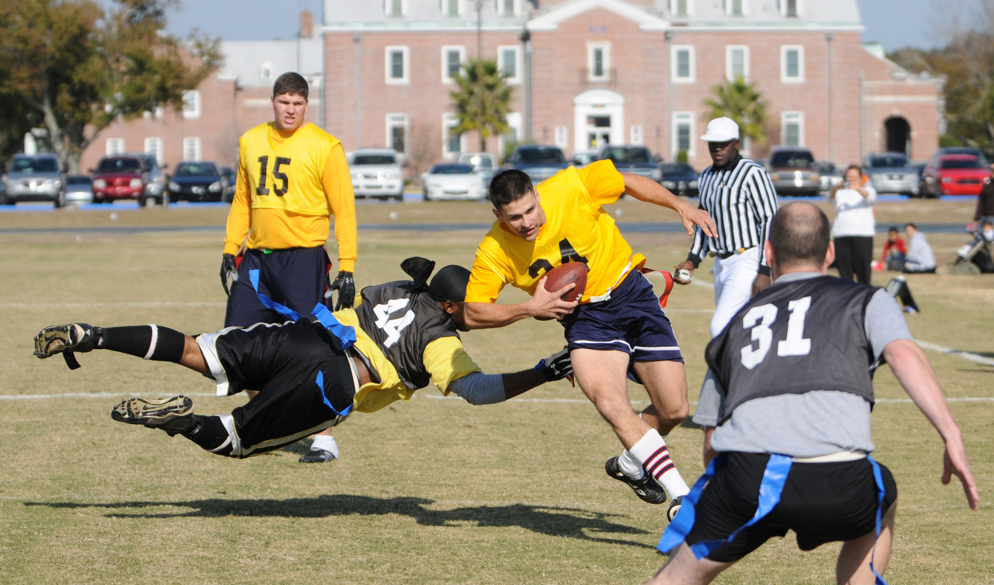 PENSACOLA, Fla. (Dec. 6, 2008) Navy quarterback Marine Corps Staff Sgt. Trevor Claypool runs through the Army defense during the 6th annual Army-Navy flag football game at the Center for Information Dominance Corry Station. Navy defeated the Army team 14-0. (U.S. Navy photo by Gary Nichols/Released)